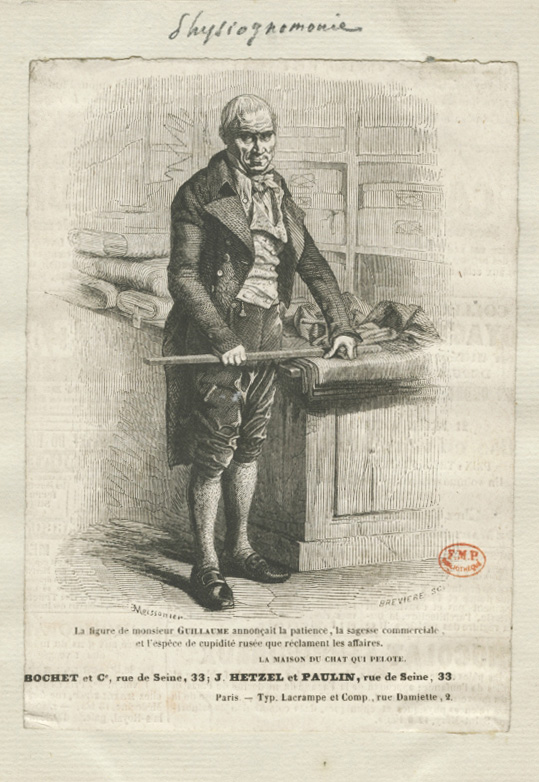 "La figure de monsieur Guillaume annonçait la patience, la sagesse commerciale, et l'espèce de cupidité rusée que réclament les affaires". Illustration by Meissonier engraved by Louis-Henri Brévière for La Maison du chat-qui-pelote by Balzac (published in 1829).